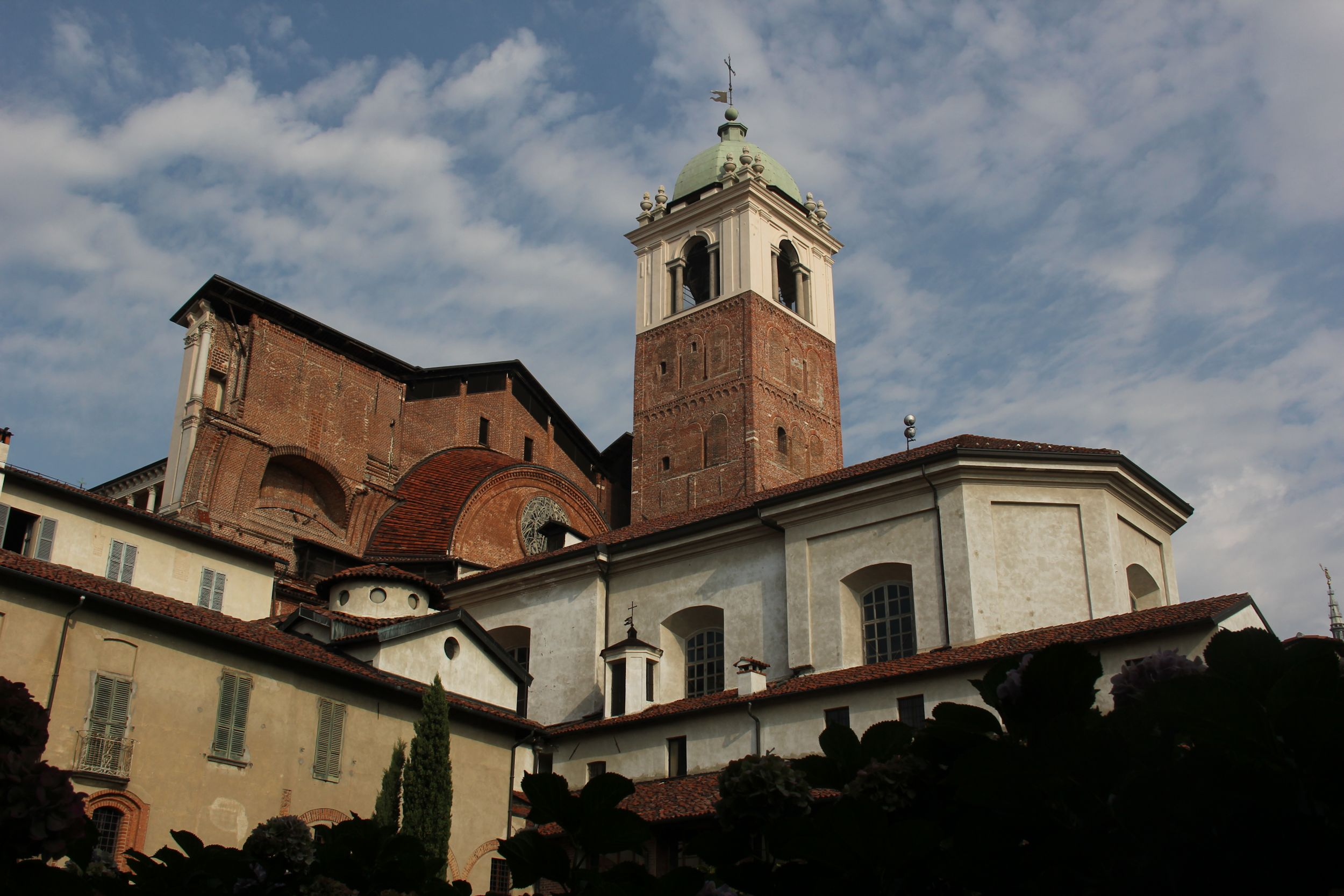 Cattedrale di Santa Maria Assunta, Novara, Piedmont, Italy